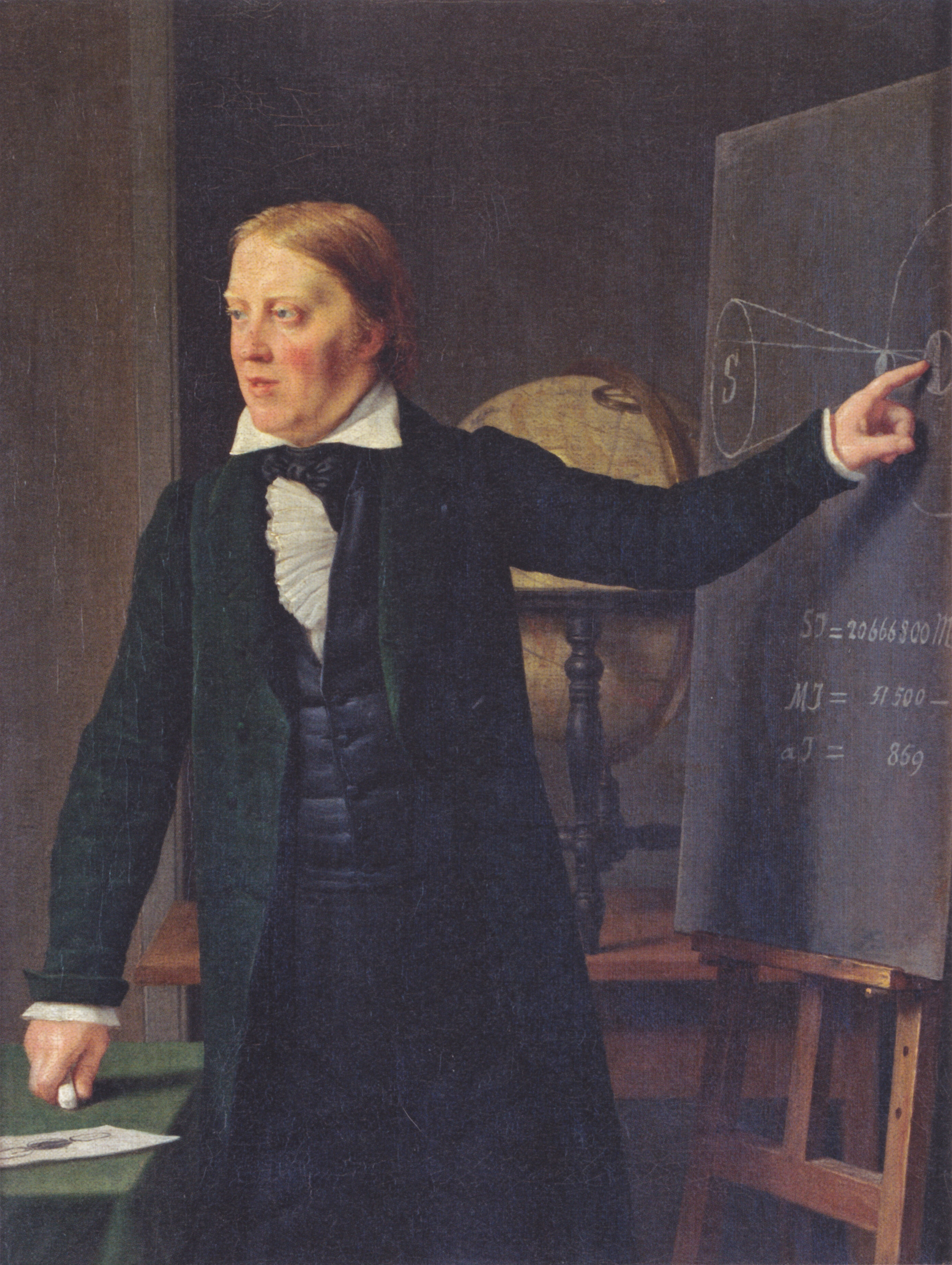 Professor Georg Frederik Ursin, explaining a solar eclipse.